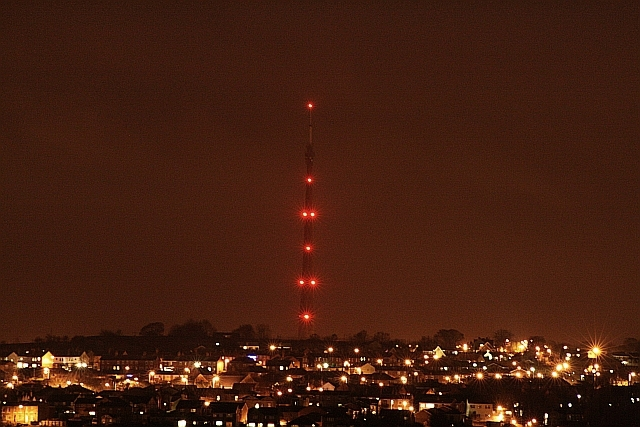 Emley Moor mast at night Looking from Storrs Hill near Horbury.